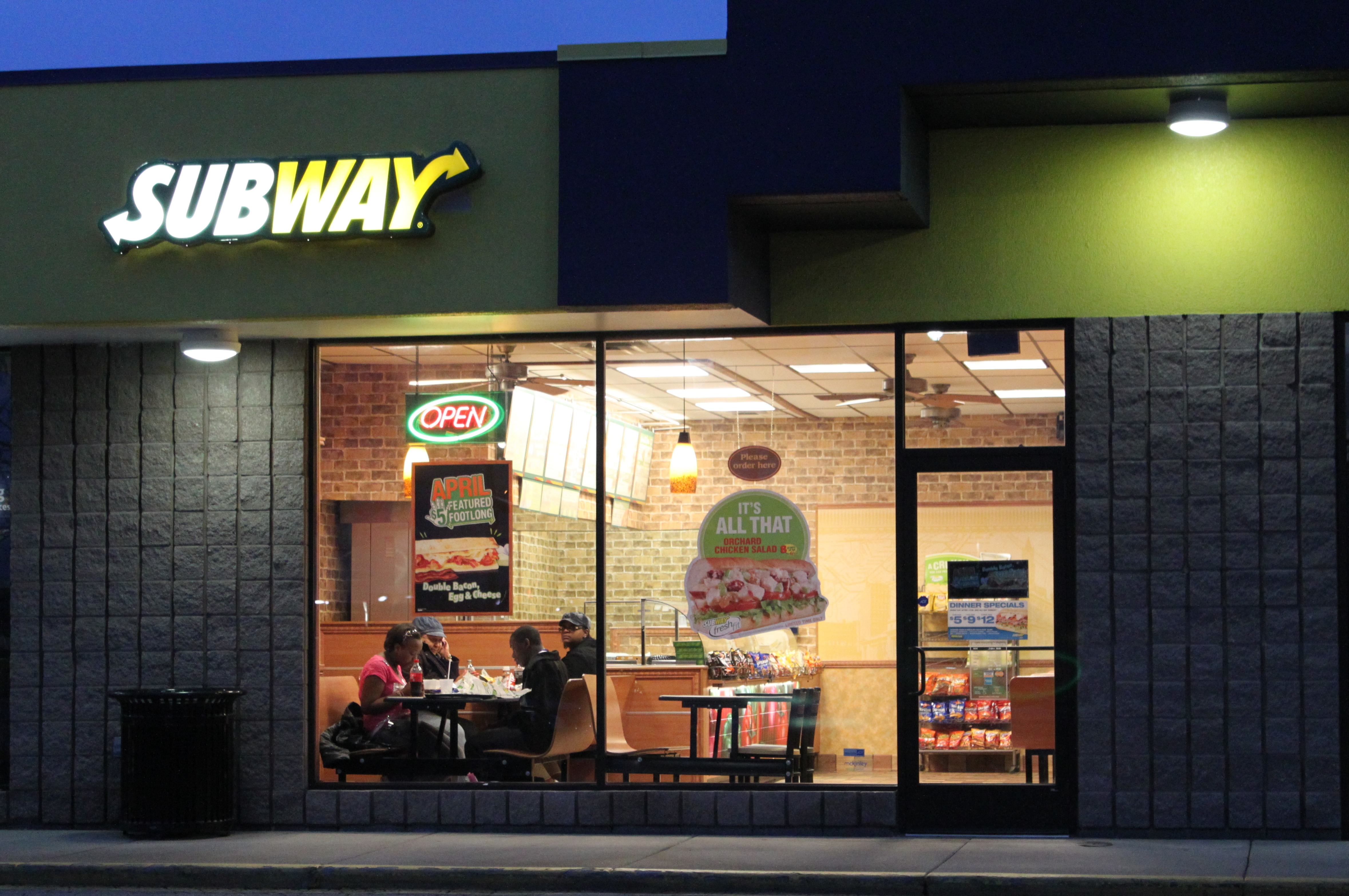 Subway restaurant, 4009 Carpenter Road, Pittsfield Township, Michigan